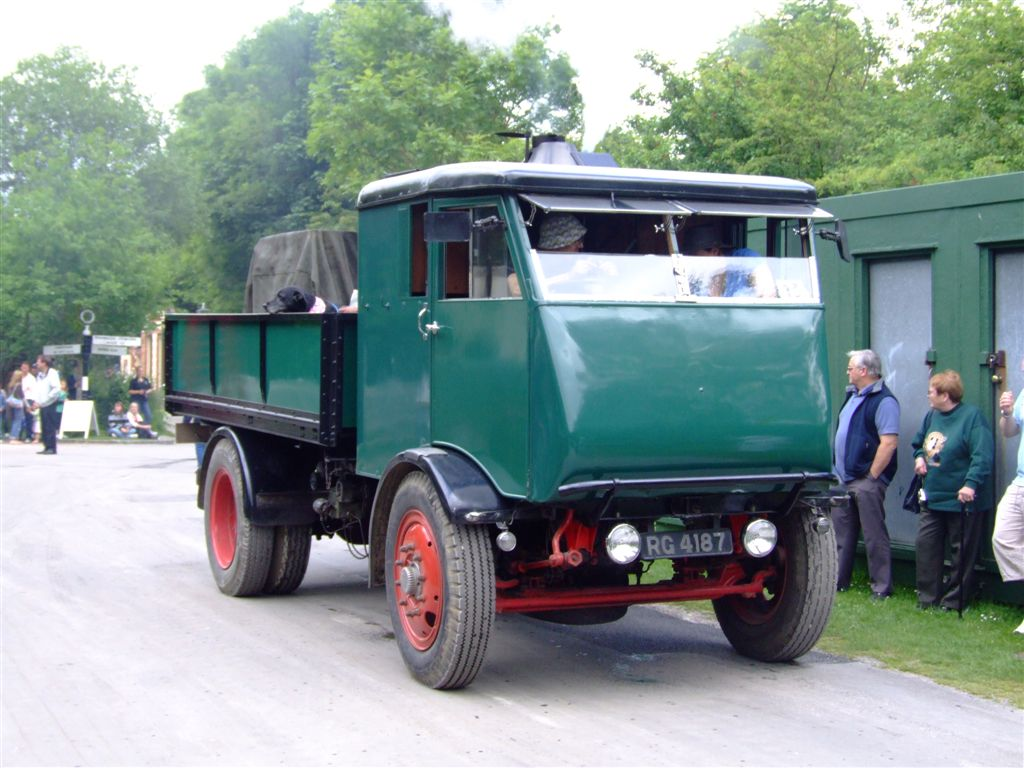 These were still being constructed in the 1950s and featured an extremely advanced underchassis type steam engine. Closely resembling an internal combustion engine , its single acting cylinders and poppet valve gear would not have looked out of place on such a power unit.